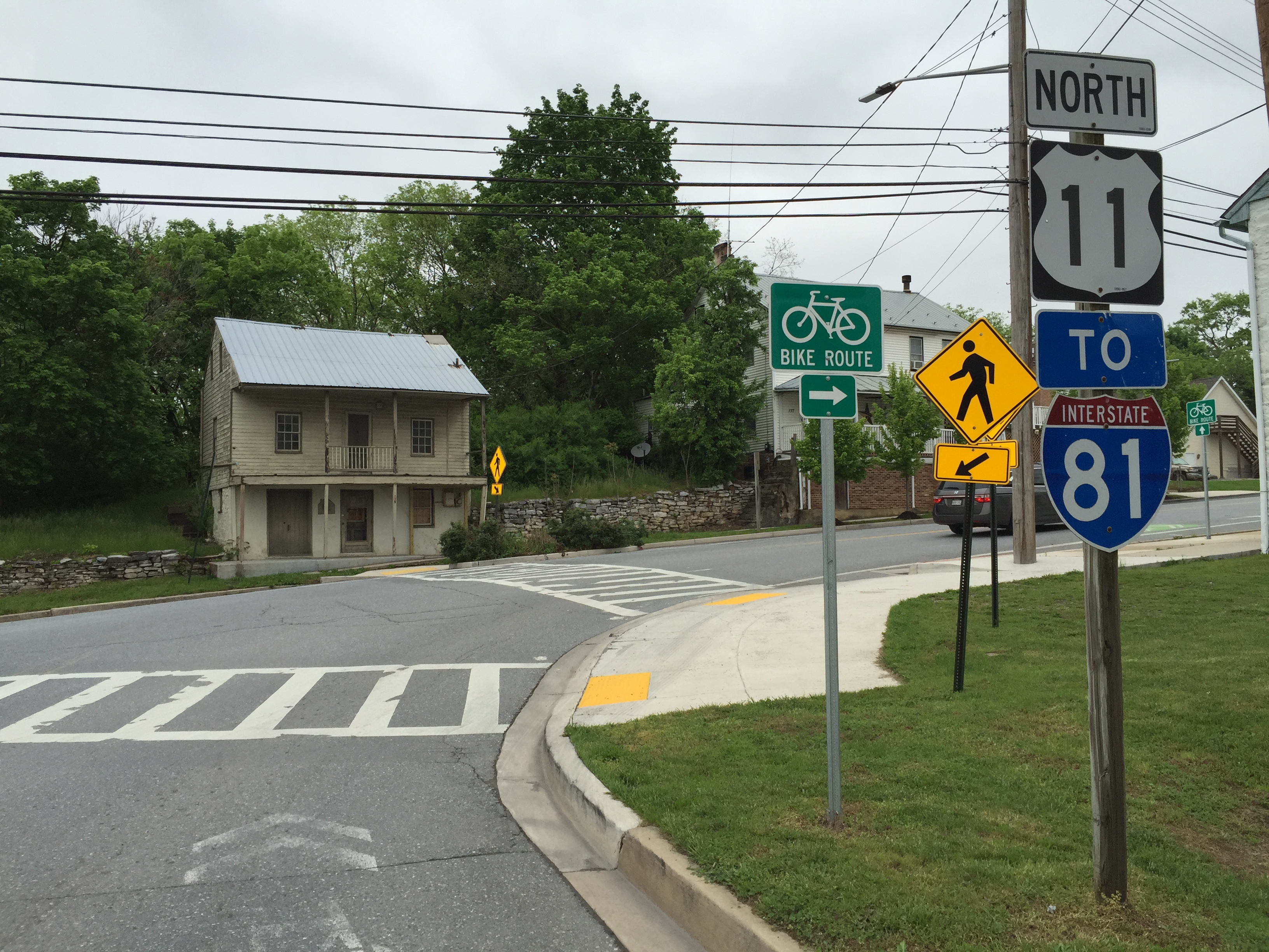 View north along U.S. Route 11 as it turns from North Commerce Street onto West Potomac Street in Williamsport, Washington County, Maryland